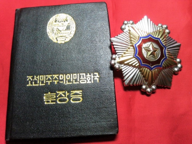 Soviet-made DPRK Order of the National Flag 2nd class with document from Korean war era